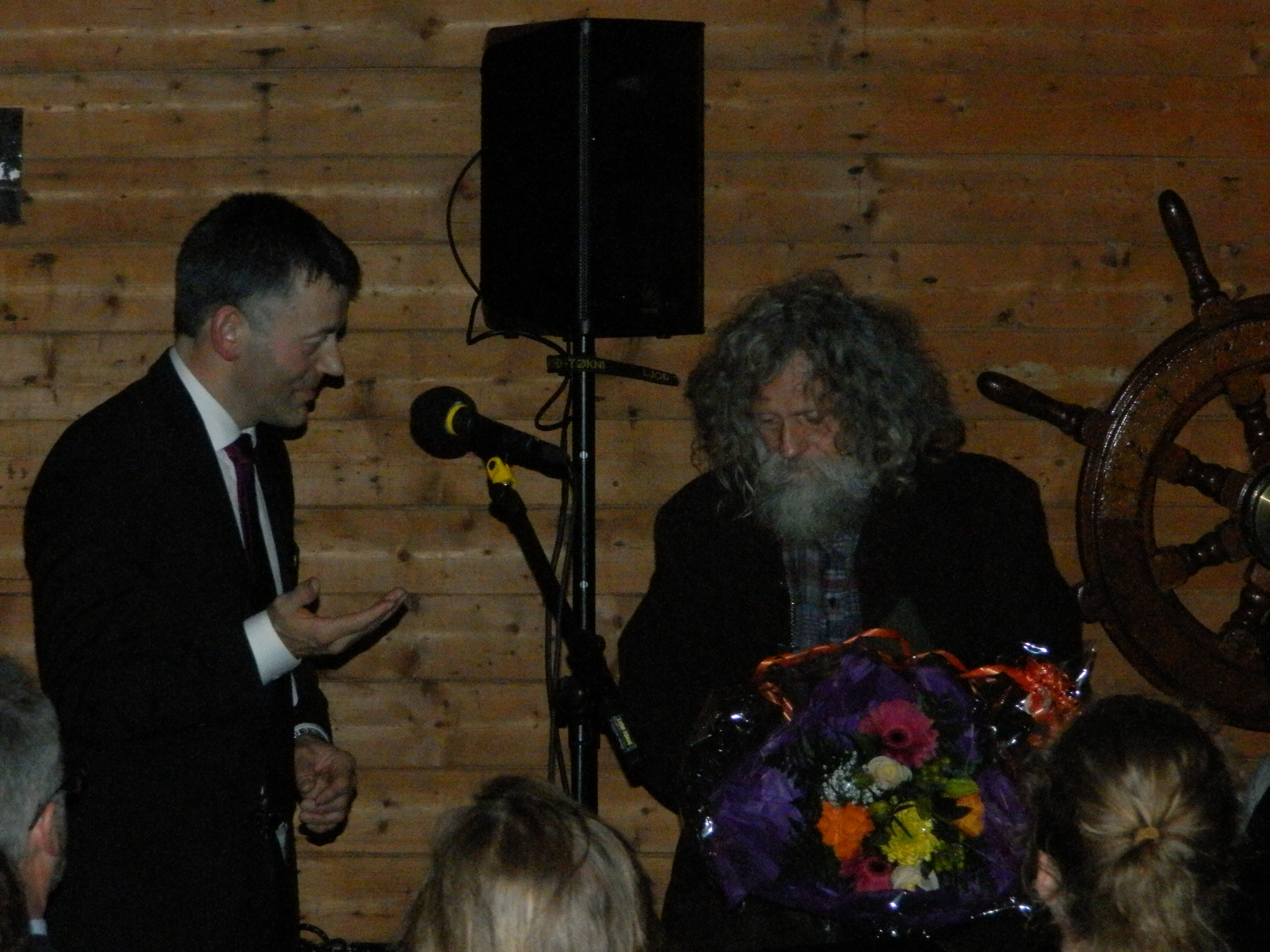 The Faroese Cultural Awards 2013 were handed in Vágur on 15 January 2014. The main award of 150 000 DKK was handed the artist and adventurer Tróndur Patursson from Kirkjubøur. The Minister of Culture Bjørn Kalsø handed the award.